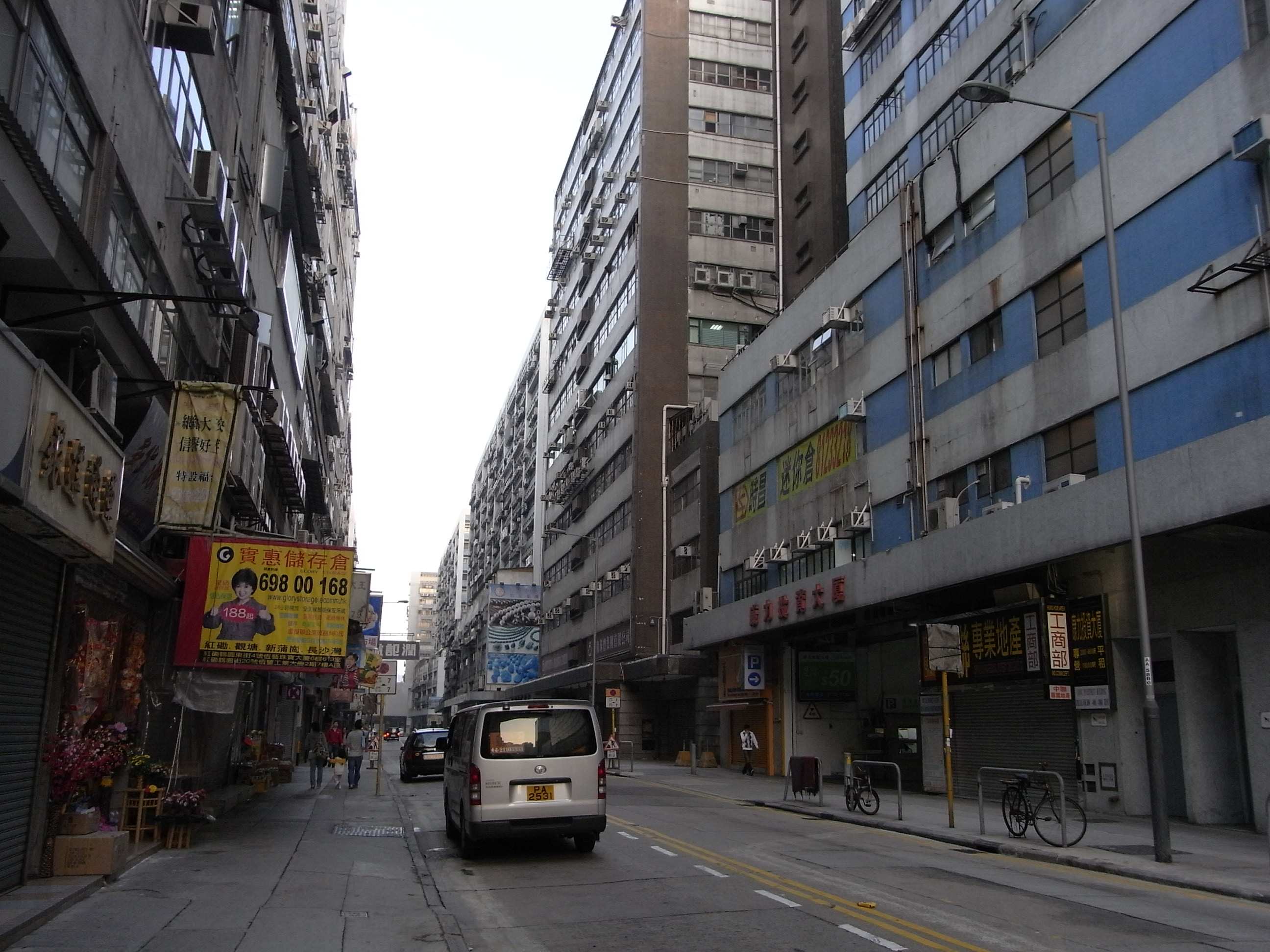 鶴園街工業區 黃昏